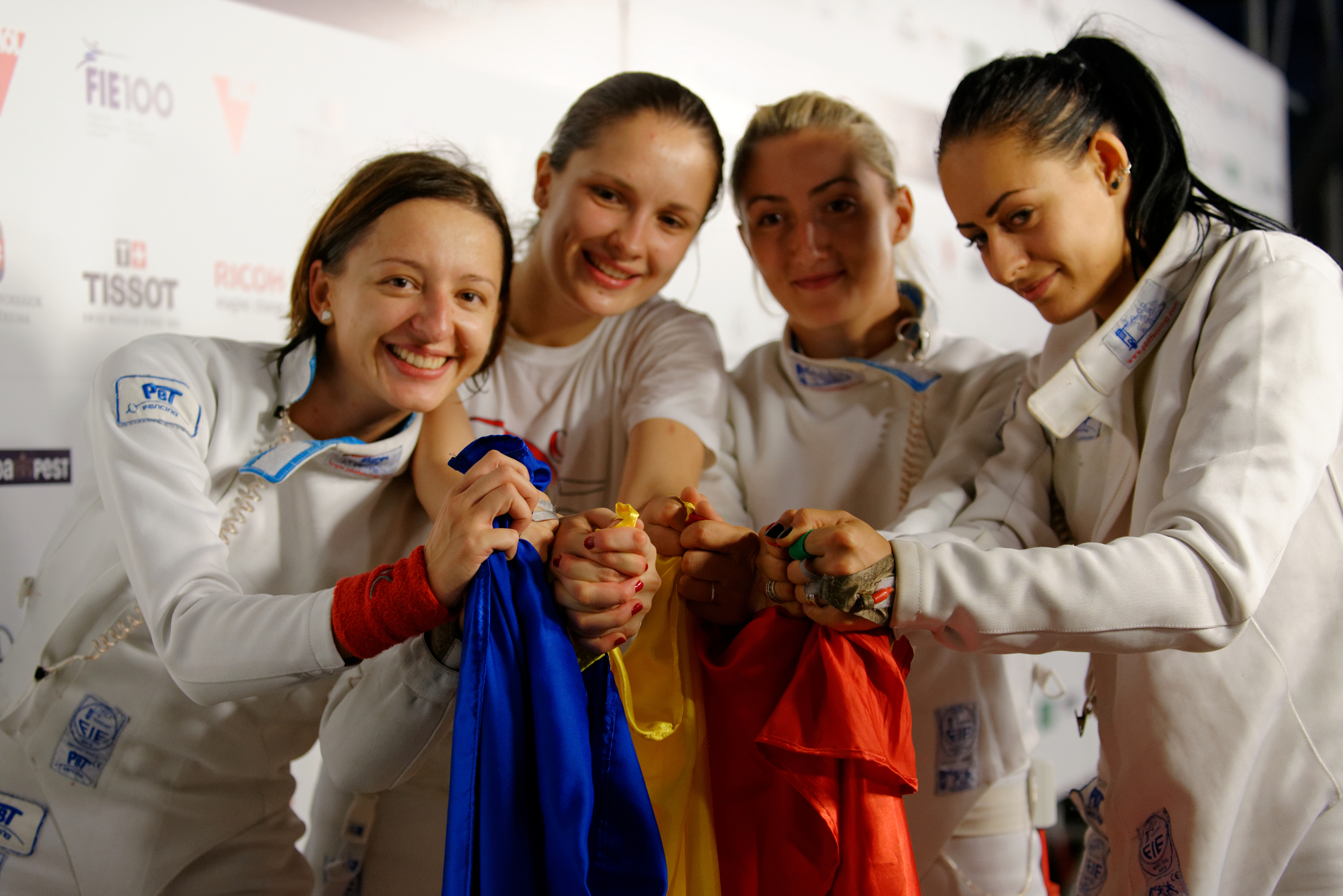 Romania celebrate their bronze medal in women's team épée at a press conference during the 2013 World Fencing Championships 2013 at Syma Hall in Budapest, 11 August 2013. From left to right: Ana Maria Brânză, Simona Pop, Raluca Cristina Sbârcia, and Maria Udrea.